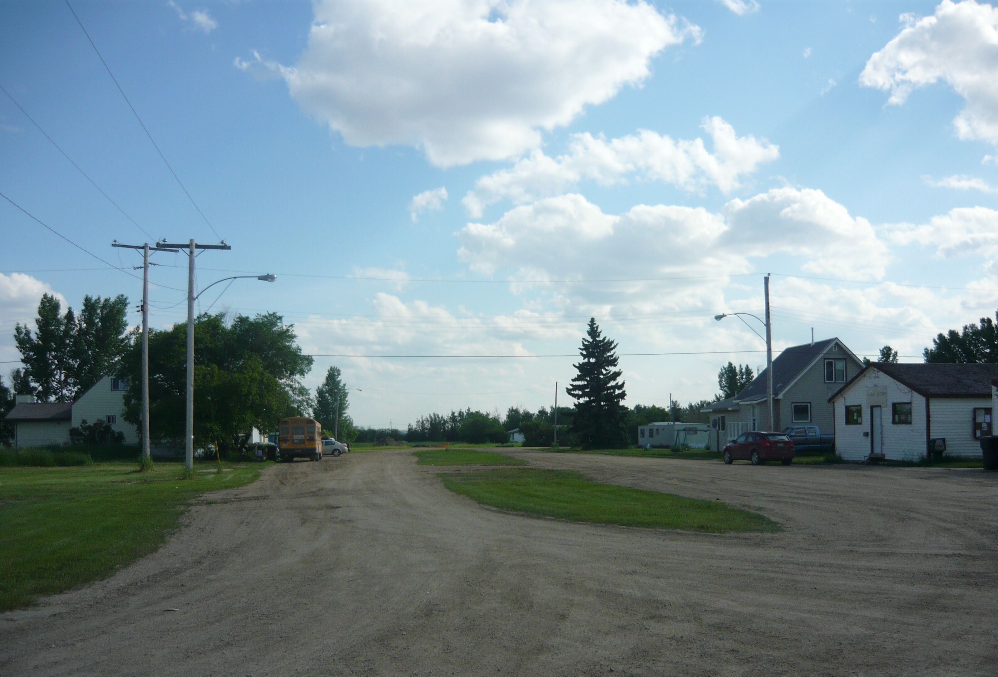 The village of Elstow, Saskatchewan, Canada. Looking southward on Bedford Street from the intersection with Railway Avenue.